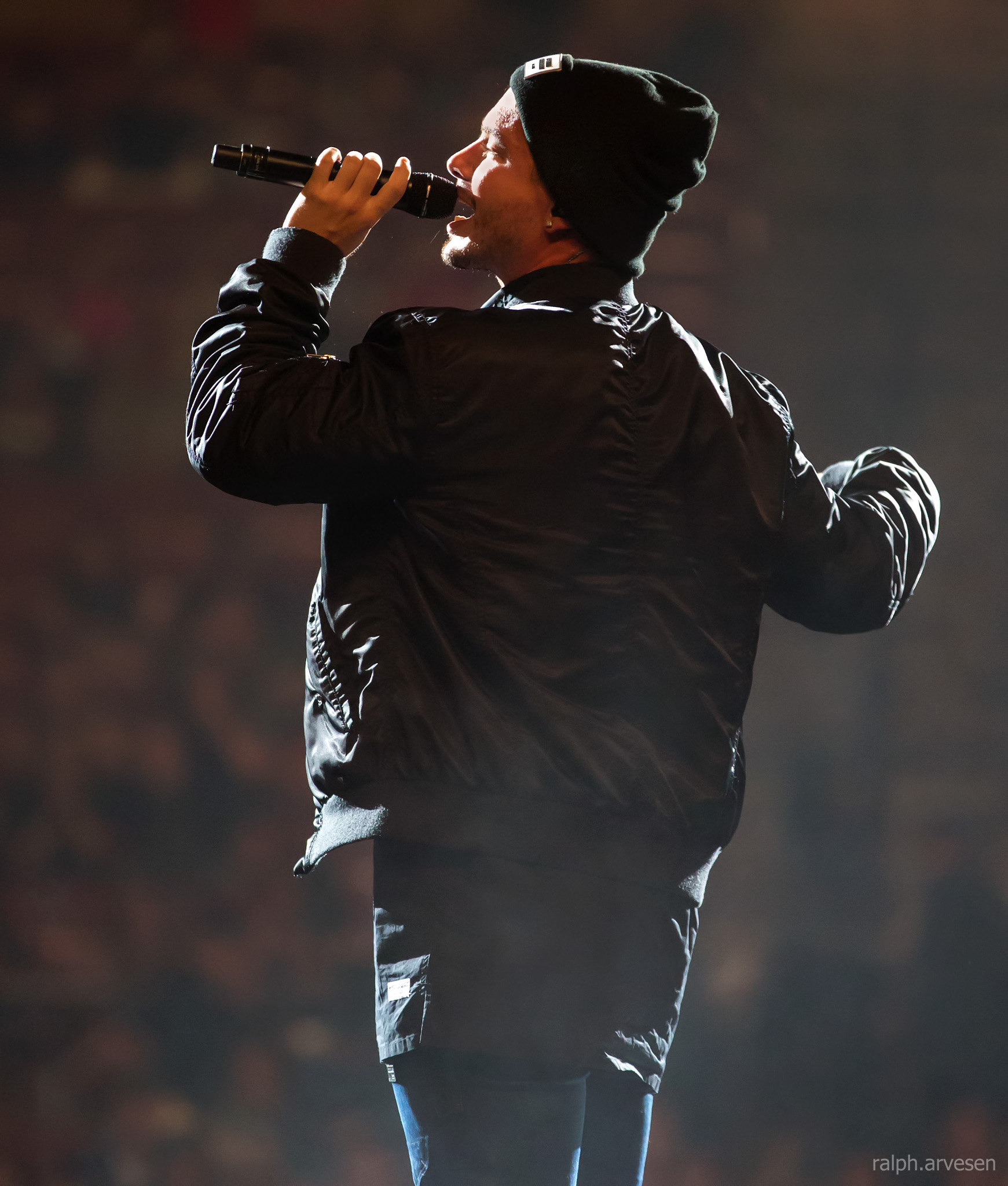 J Balvin performing at the Frank Erwin Center in Austin, Texas, 2015-02-07.